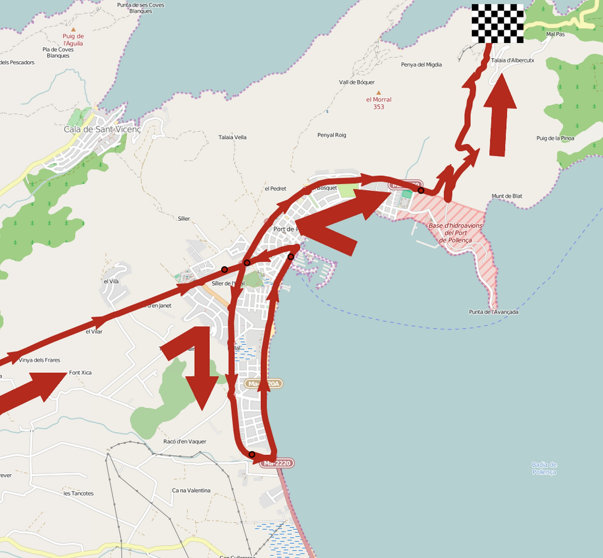 Parcours du Trofeo Andratx du Challenge de Majorque 2015. This map may be incomplete, and may contain errors. Don't rely solely on it for navigation.